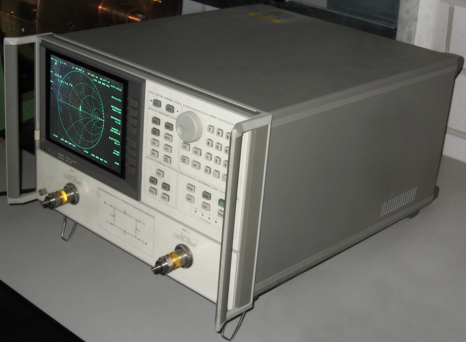 A network analyzer (HP 8720 A) showing a Smith Chart.